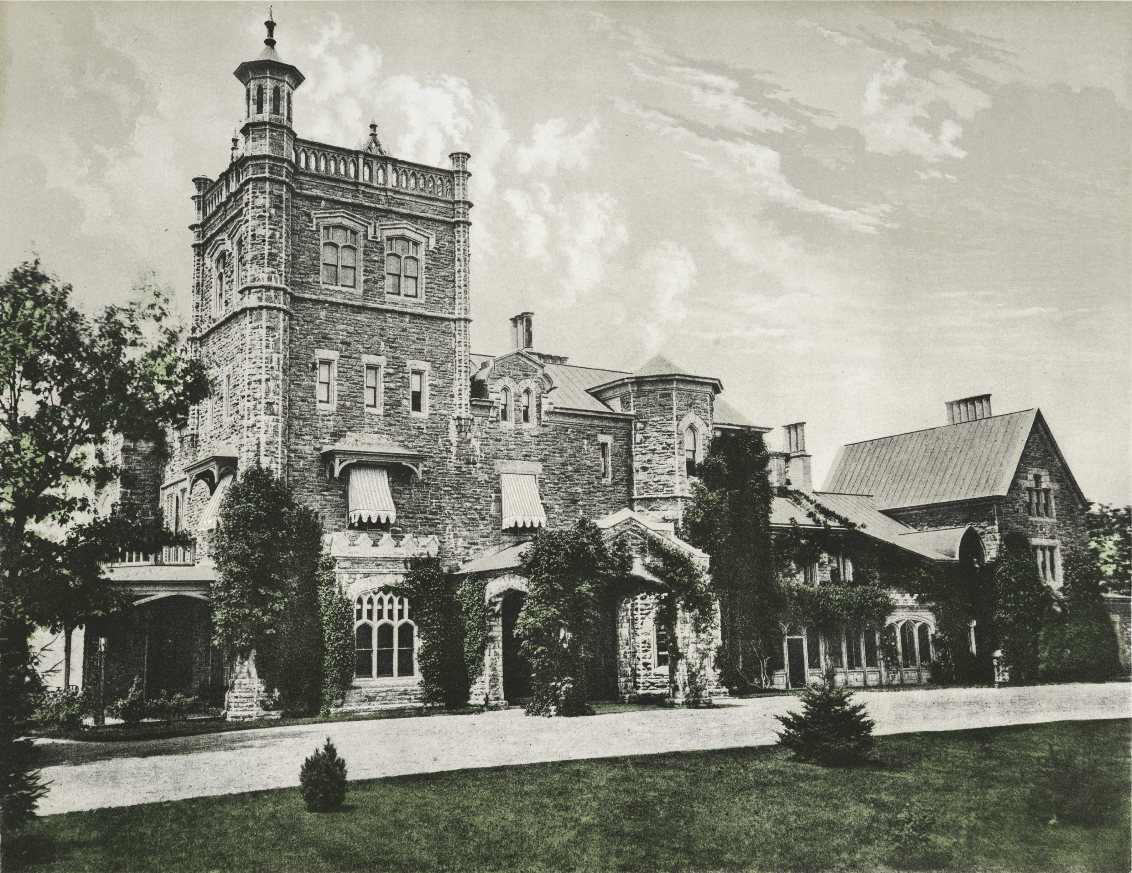 "Rockwood", when owned by William Henry Aspinwall, in 1860.